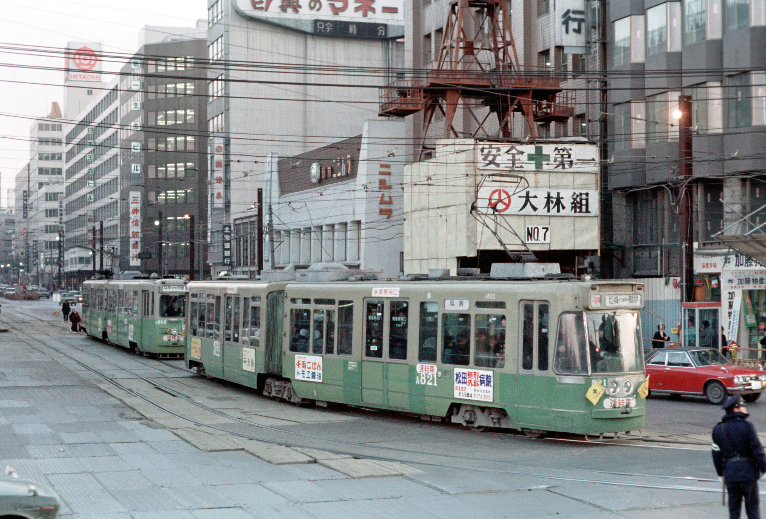 Sapporo City Tram A820Type A821+A822 at Sapporo station